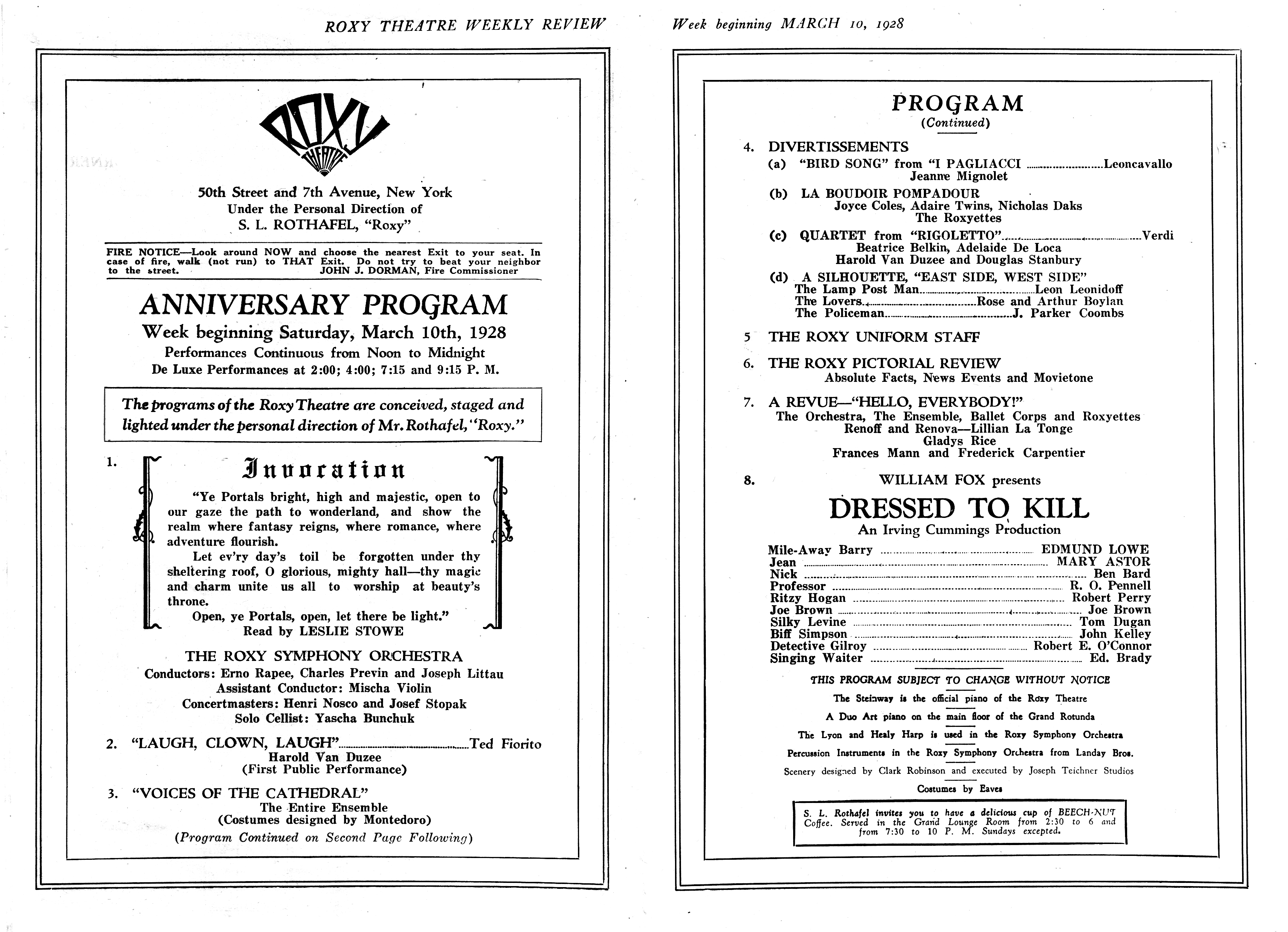 Details of the program appearing in the Roxy Theater Weekly Review for the week of March 10, 1928 celebrating the first anniversary of the theater's opening on March 11, 1927. The theater was located at 50th Street at 7th Avenue, New York, NY